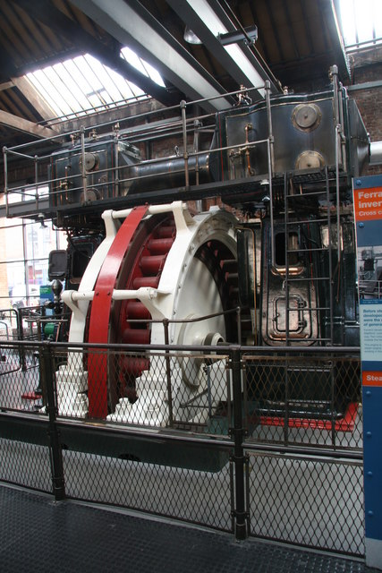 Ferranti engine, Museum of Science & Industry This is a very important machine with a chequered history. It is an inverted vertical compound steam engine built by S Z de Ferranti in 1898 to drive a 250 kW shaft alternator at Lambeth for public electricity supply. Its capacity was exceeded by 1900 and it was moved to Brunswick Mill (weaving), Chorley and drove the mill by ropes from a grooved flywheel. In 1960 Messrs Ferranti acquired it for display at the Hollinwood works and the rope drive was retained. Finally, on closure of the works the engine was acquired by the then Greater Manchester Museum of Science and Industry. By great good fortune, a suitable Siemens zig-zag alternator was obtained from Ferranti and just fitted the engine. So it is now shown not as a mill engine but more or less as built as a generating engine with shaft alternator. It can be demonstrated in steam and is lovely. Sorry to witter but the context and story do matter in this case.